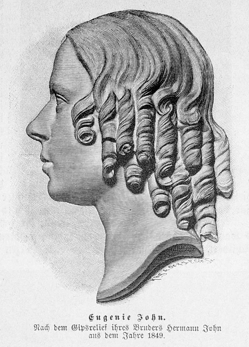 caption: "Eugenie John. Nach dem Gipsrelief ihres Bruders Hermann John aus dem Jahre 1849."